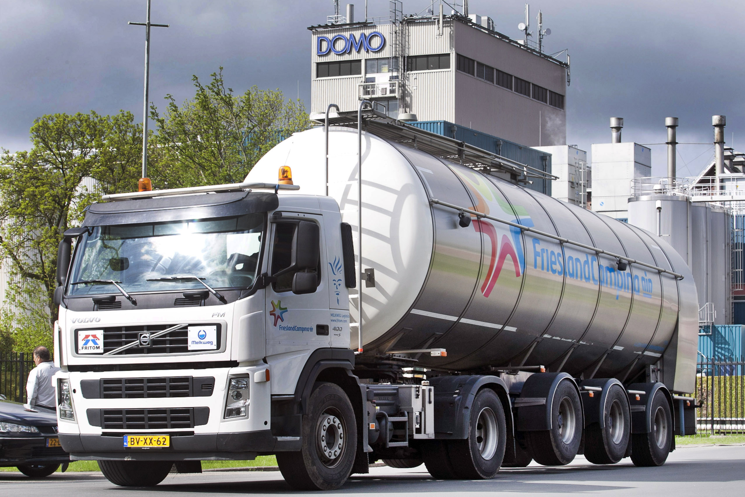 120512 BEDUM - Zo'n veertig inwoners van Bedum hebben vanochtend tijdelijk samen met hun kinderen de poort van de plaatselijke DOMO fabriek geblokkeerd. Ze deden dat uit protest tegen het afblazen van de plannen voor een rondweg om het dorp. De bewoners zijn het vele vrachtverkeer door de dorpskern al jaren zat. Een rondweg zou dé oplossing zijn. Maar de politiek wil er niet aan en steekt het geld liever in andere projecten. De bewoners vrezen dat de vrachtwagens hun kinderen zouden kunnen verwonden.